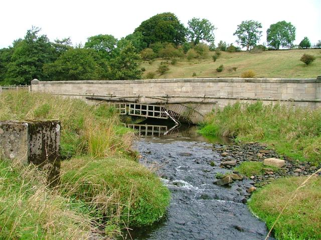 Skew Bridge. This stone bridge carried the Haggerleazes Branch of Stockton and Darlington Railway over the River Gaunless. It was built in 1830 and was the world's first railway crossing at an acute angle. It was designed by George Dixon of Cockfield. Locally it is known as the "Swin Bridge".